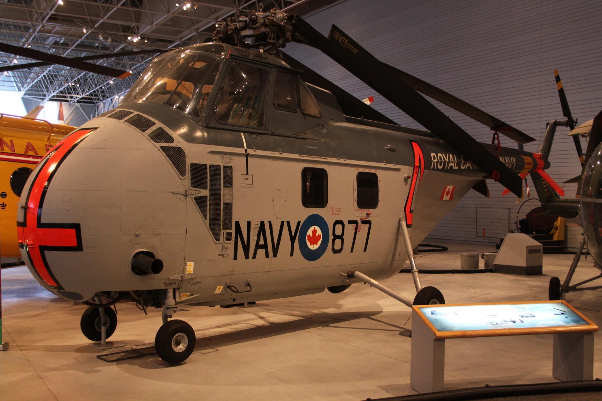 At Rockcliffe Canada Aviation Museum